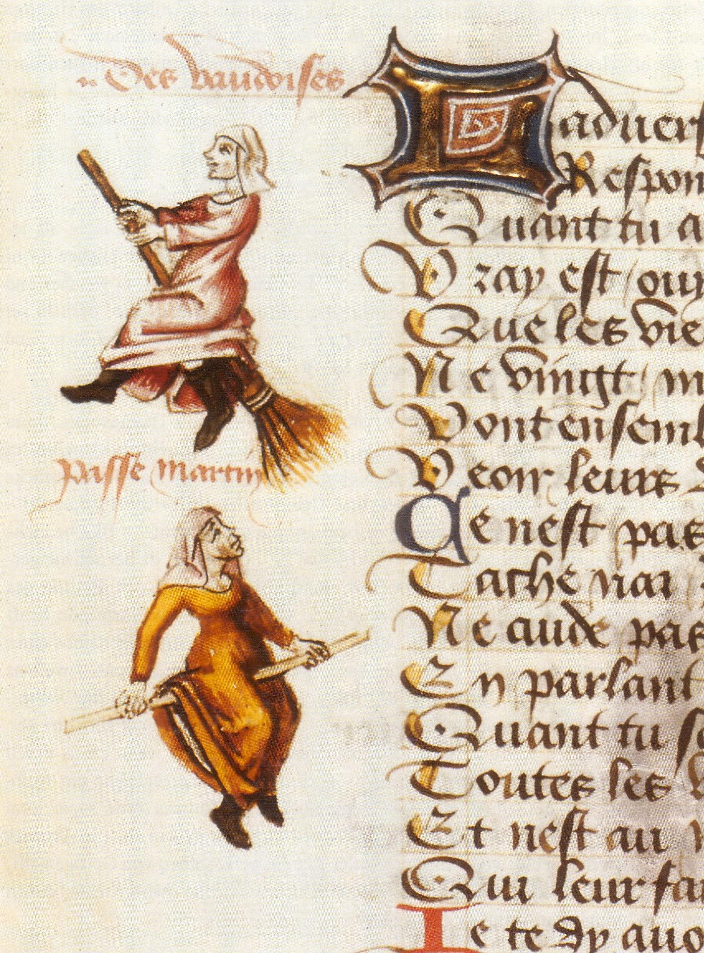 Illumination depicting the two witches on a broomstick and a stick, in Martin Le Franc's "Ladies' Champion", 1451